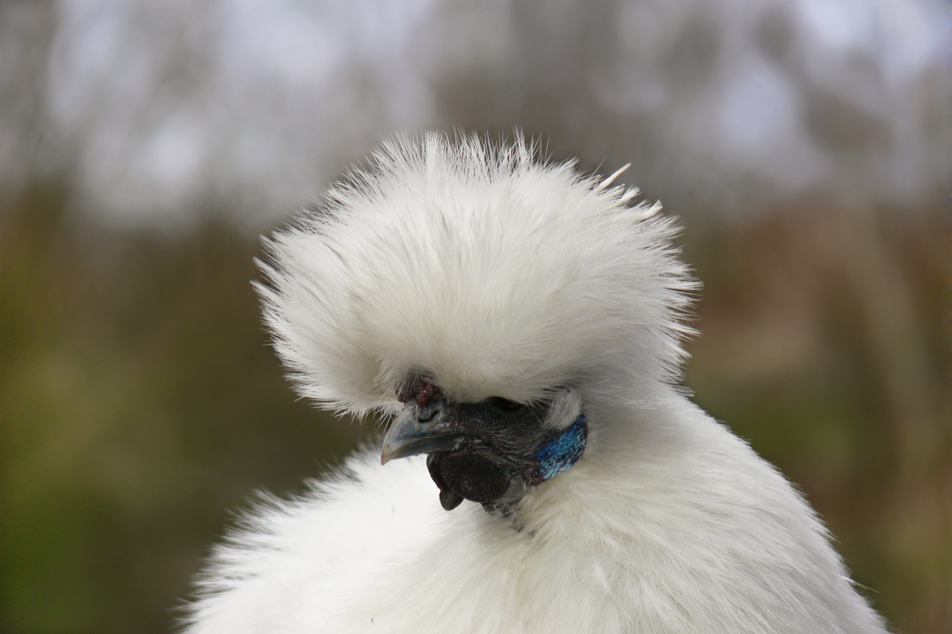 A silkie is a minature ornamental hen.